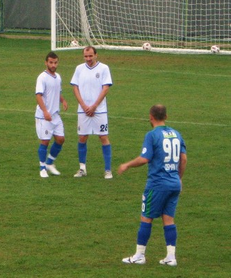 Mladen Žižović and other player (Karabeci?) against RİZESPOR